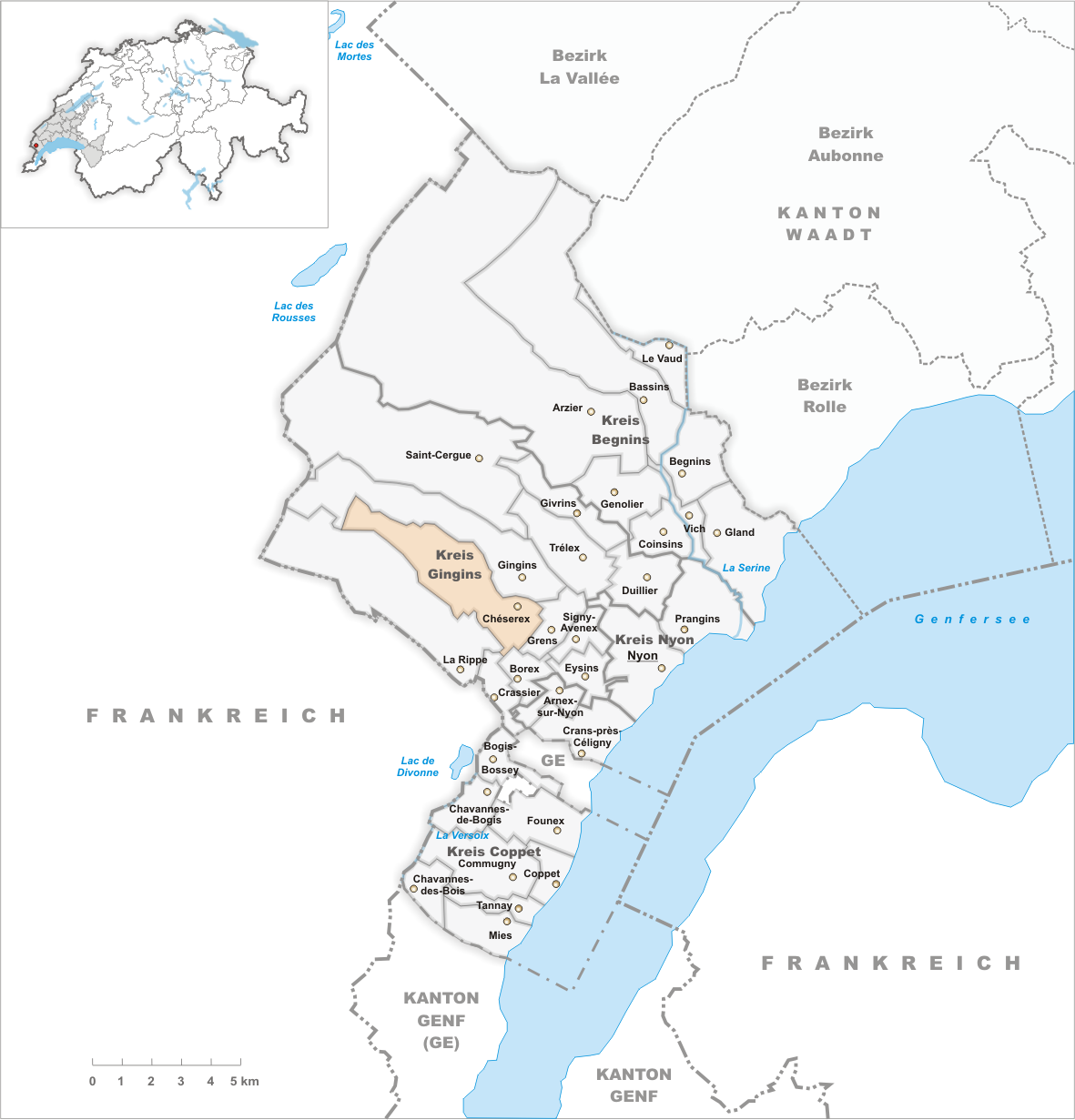 Municipality Chéserex